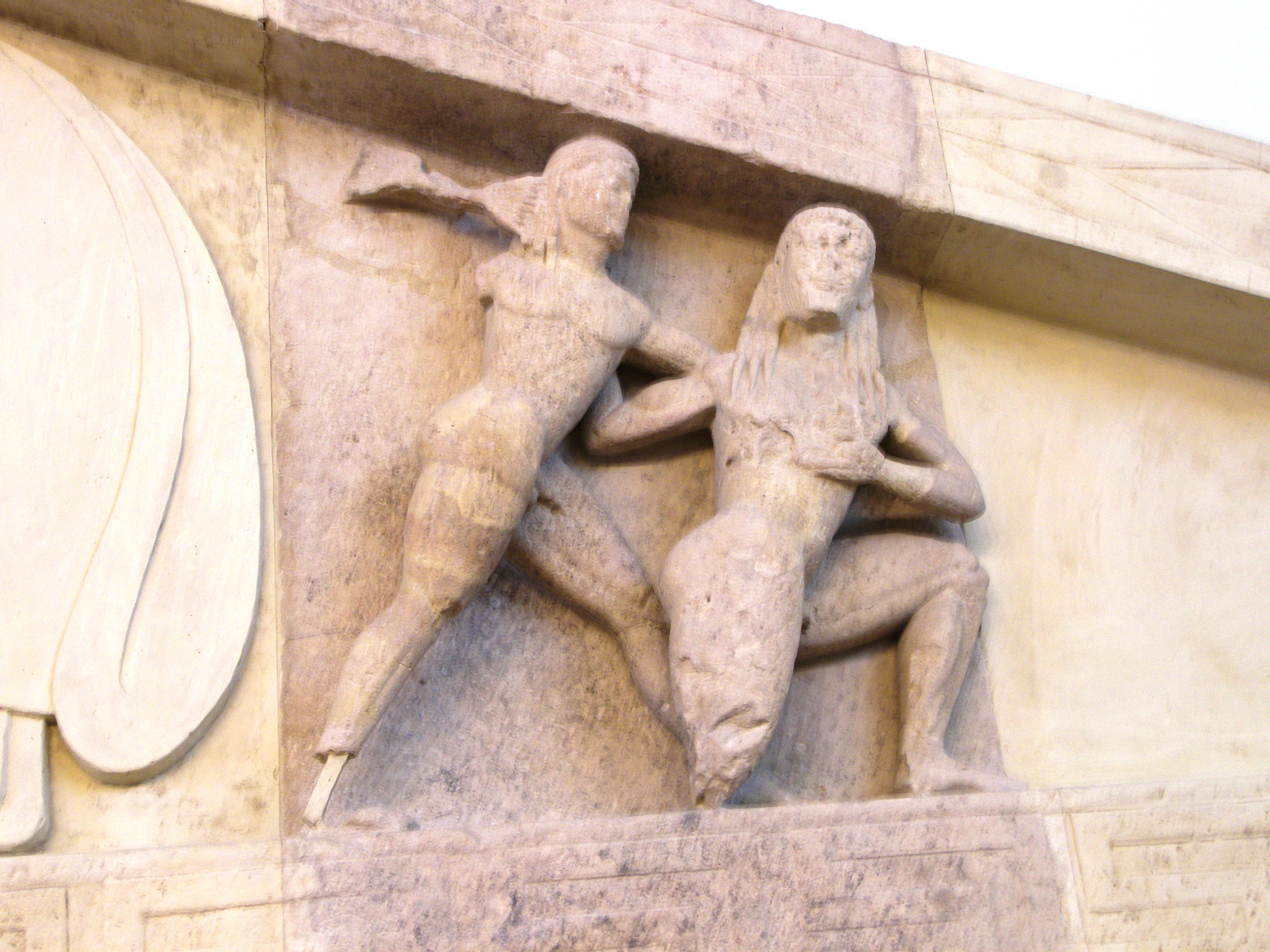 Please see filename